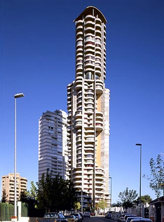 Neguri Gane, skyscraper in Benidorm